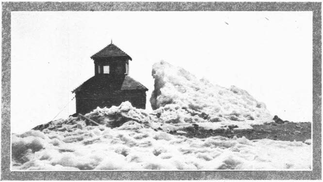 United States Forest Service lookout cabin on the summit of Mount Adams, August 9, 1922.